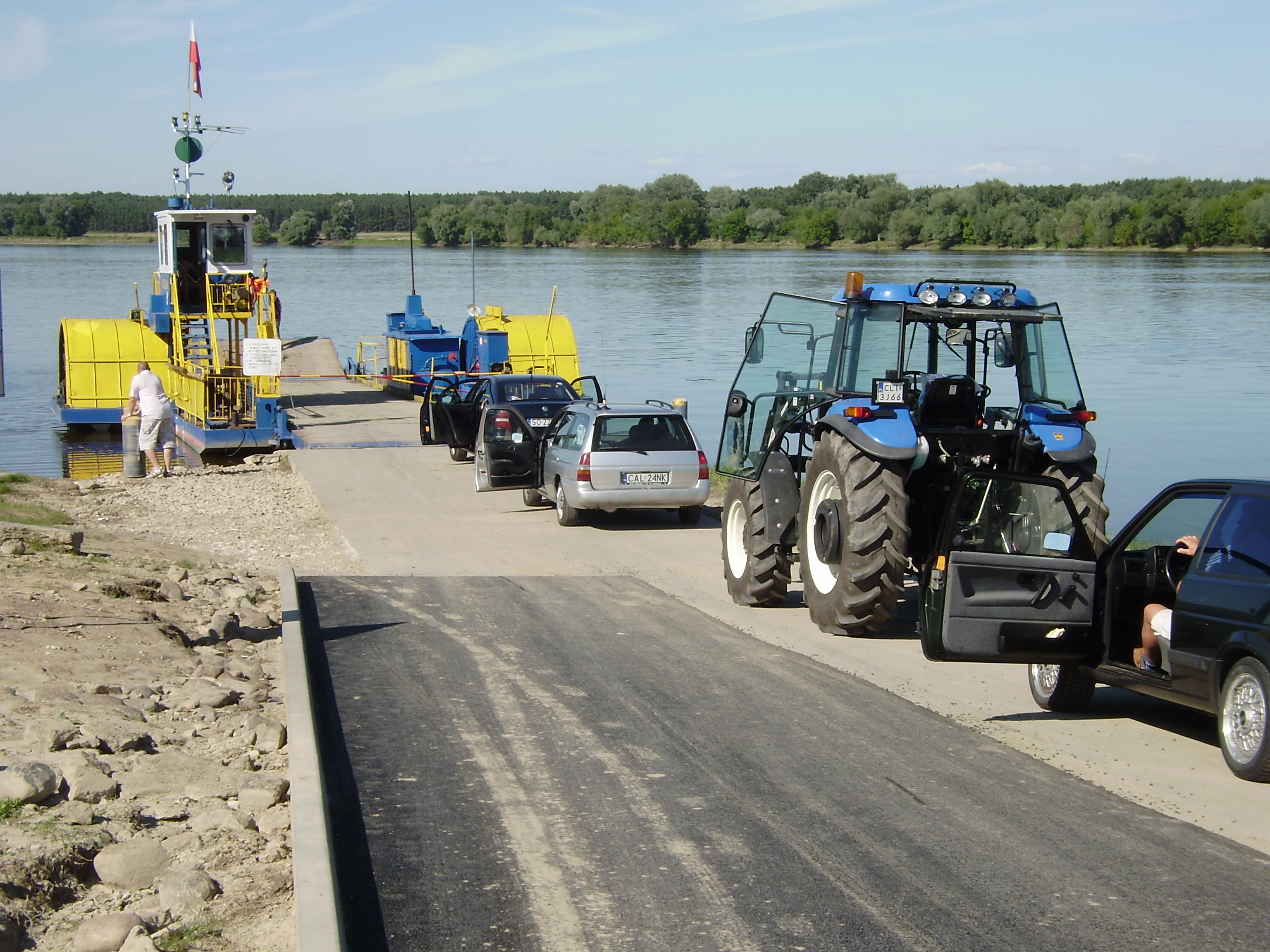 Winter break approx. 4 month. Info